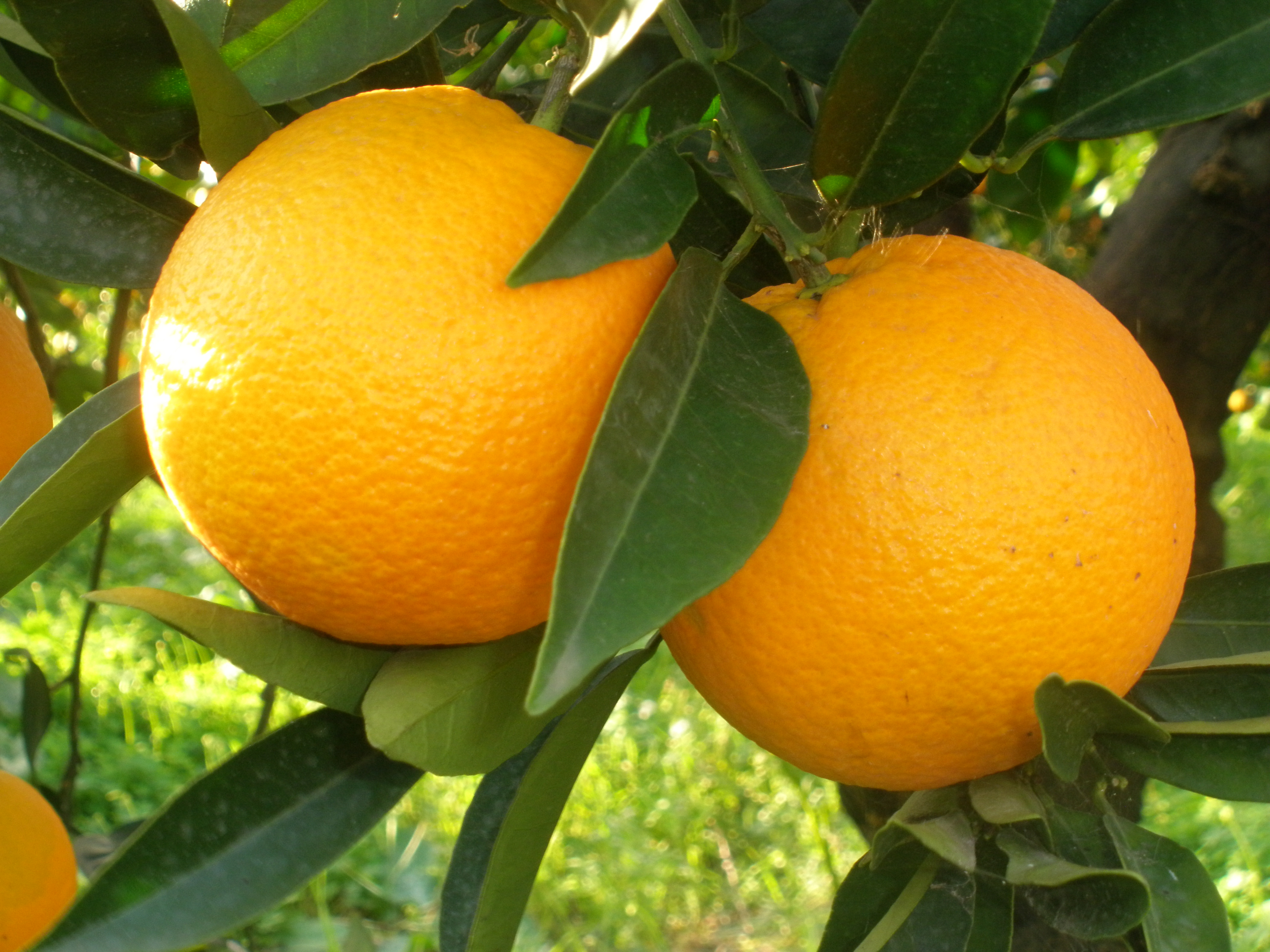 Orange of Ribera